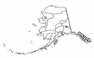 Adapted from Wikipedia's AK borough maps by Seth Ilys.